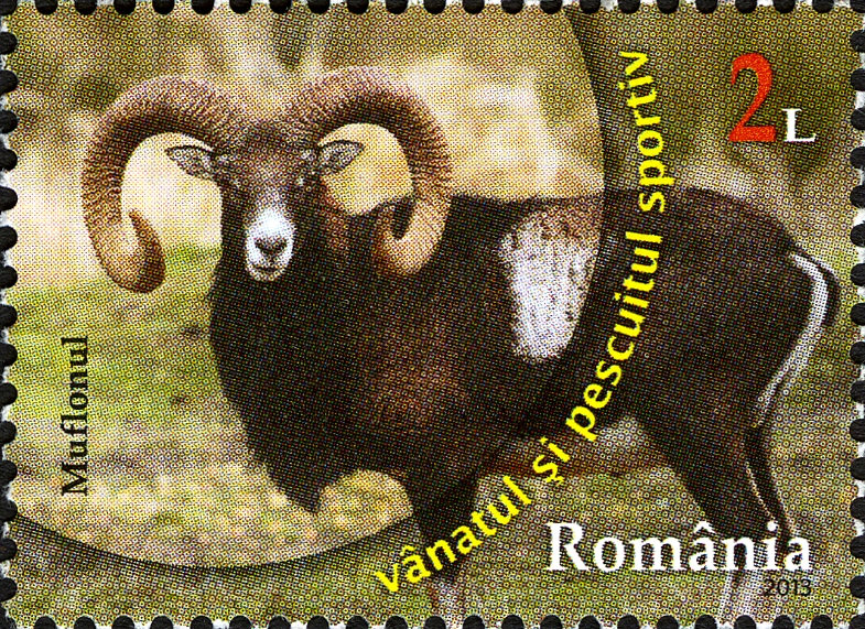 Stamps of Romania, 2013